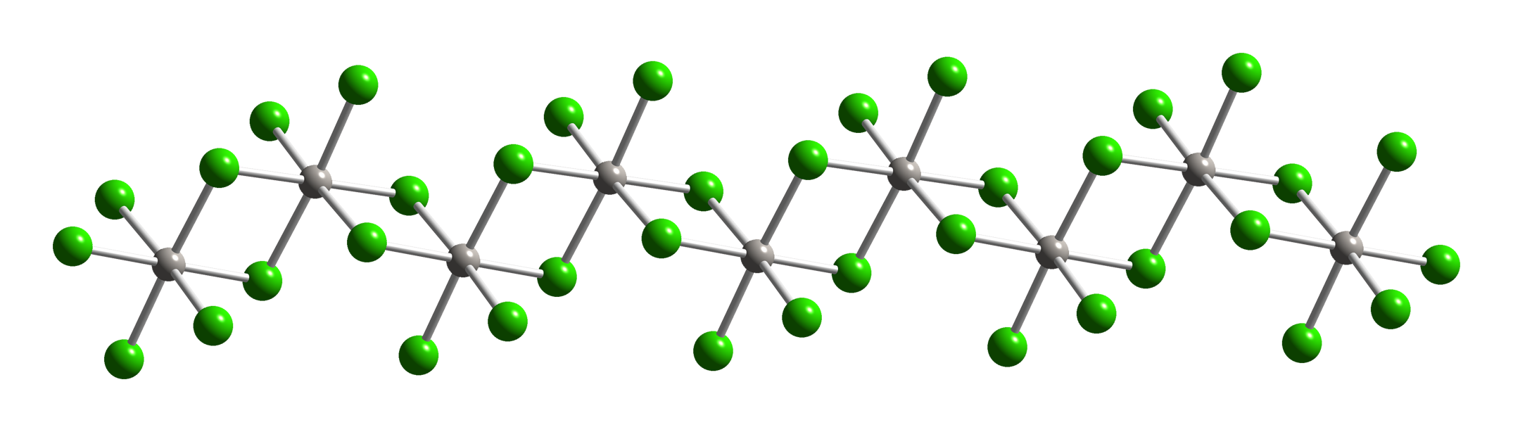 Ball-and-stick model of part of the crystal structure of platinum(IV) chloride, PtCl4. Colour code: Platinum, Pt: grey Chlorine, Cl: green Crystal structure data from J. Chem. Soc., Chem. Commun. (1972) 270-271 and Z. anorg. allg. Chem. (1969) 369, 154–160. Image generated in CrystalMaker 8.3.